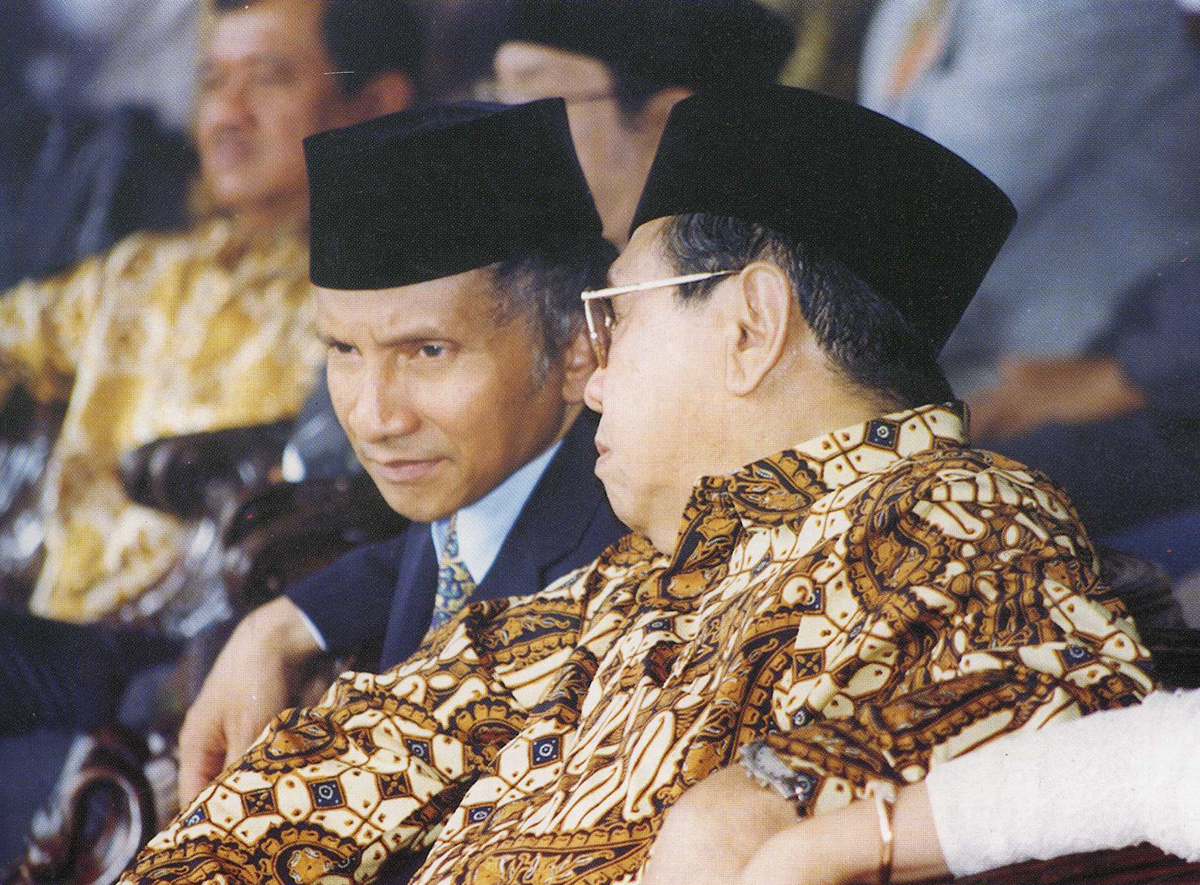 Amien Rais, the initiator of "Axis Force" who paves the way for K.H. Abdurrahman Wahid to presidency